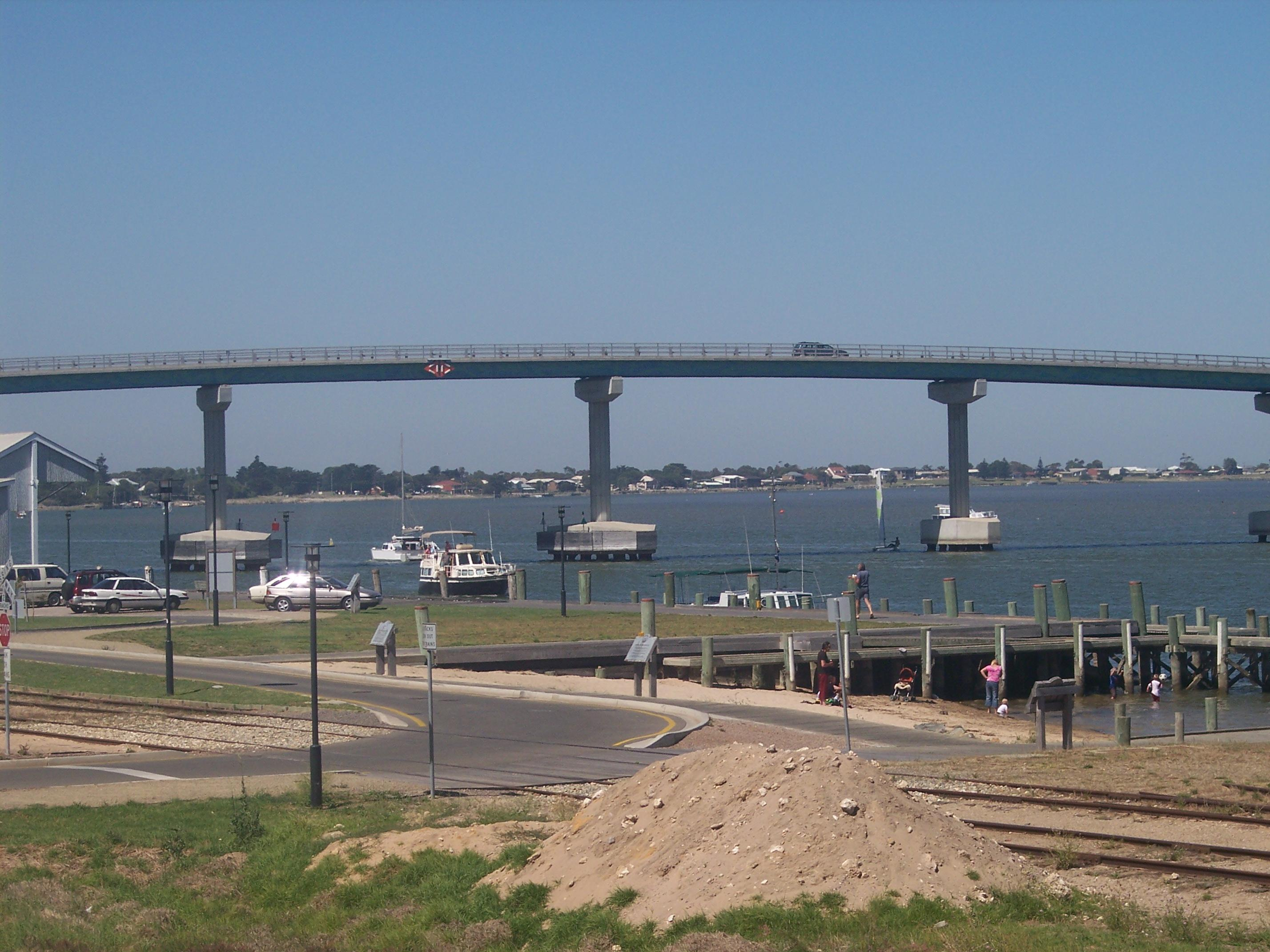 The bridge over the Murray River which links Goolwa to Hindmarsh Island.